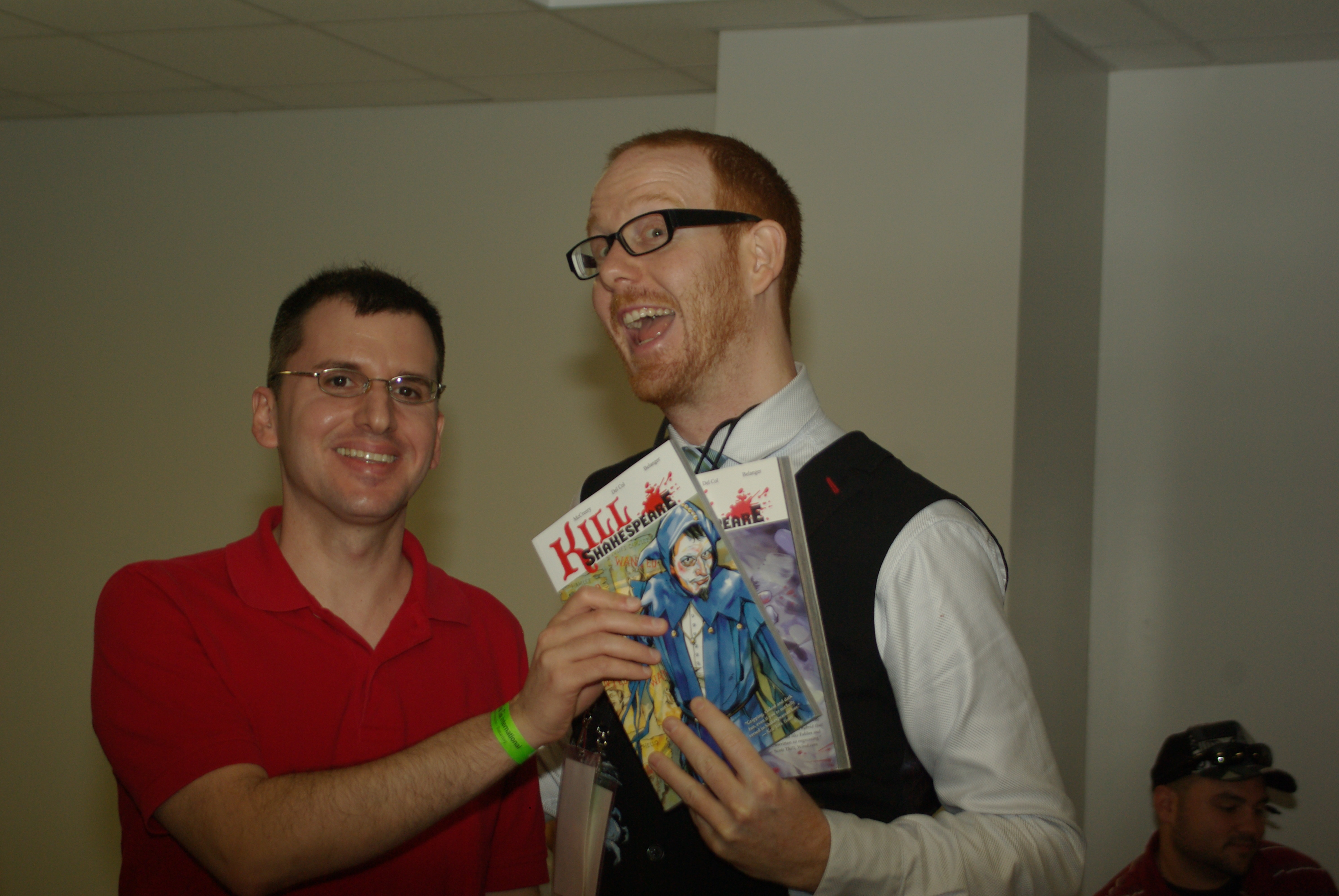 American writer Conor McCreery at the Miami Book Fair International 2011